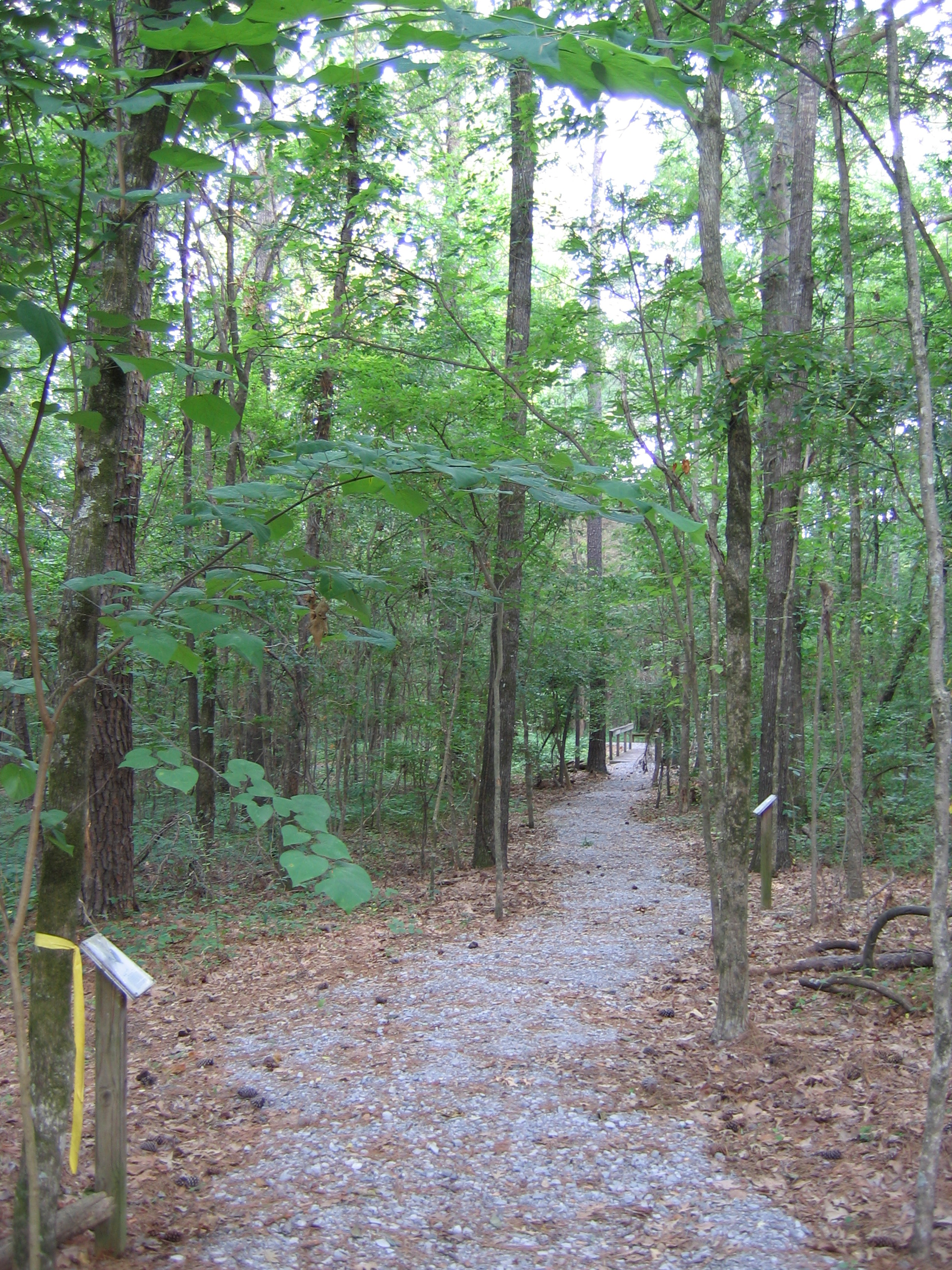 A trail at Simmons Arboretum in Madison, Mississippi.